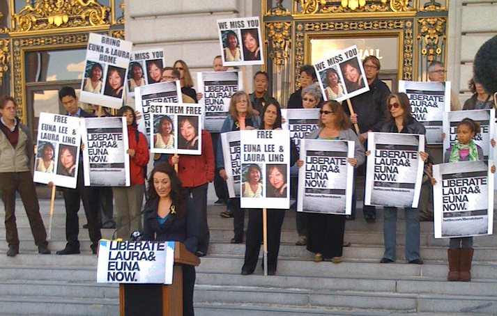 Vigils for Asian American journalists Laura Ling and Euna Lee were held throughout the country on Wed., June 3. The two employees of San Francisco-based Current TV - a media venture founded by former Vice President Al Gore - were arrested March 17 near the North Korean border while reporting on refugees living in China. Both women, accused by North Korea of crossing into the country illegally from China and committing “hostile acts.” They were tried on criminal charges on June 4th and sentenced to 12 years hard labor.